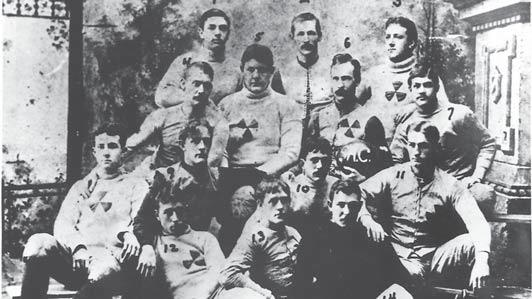 The 1893 Southern Athletic Club football team, the first opponent in Tulane's football history